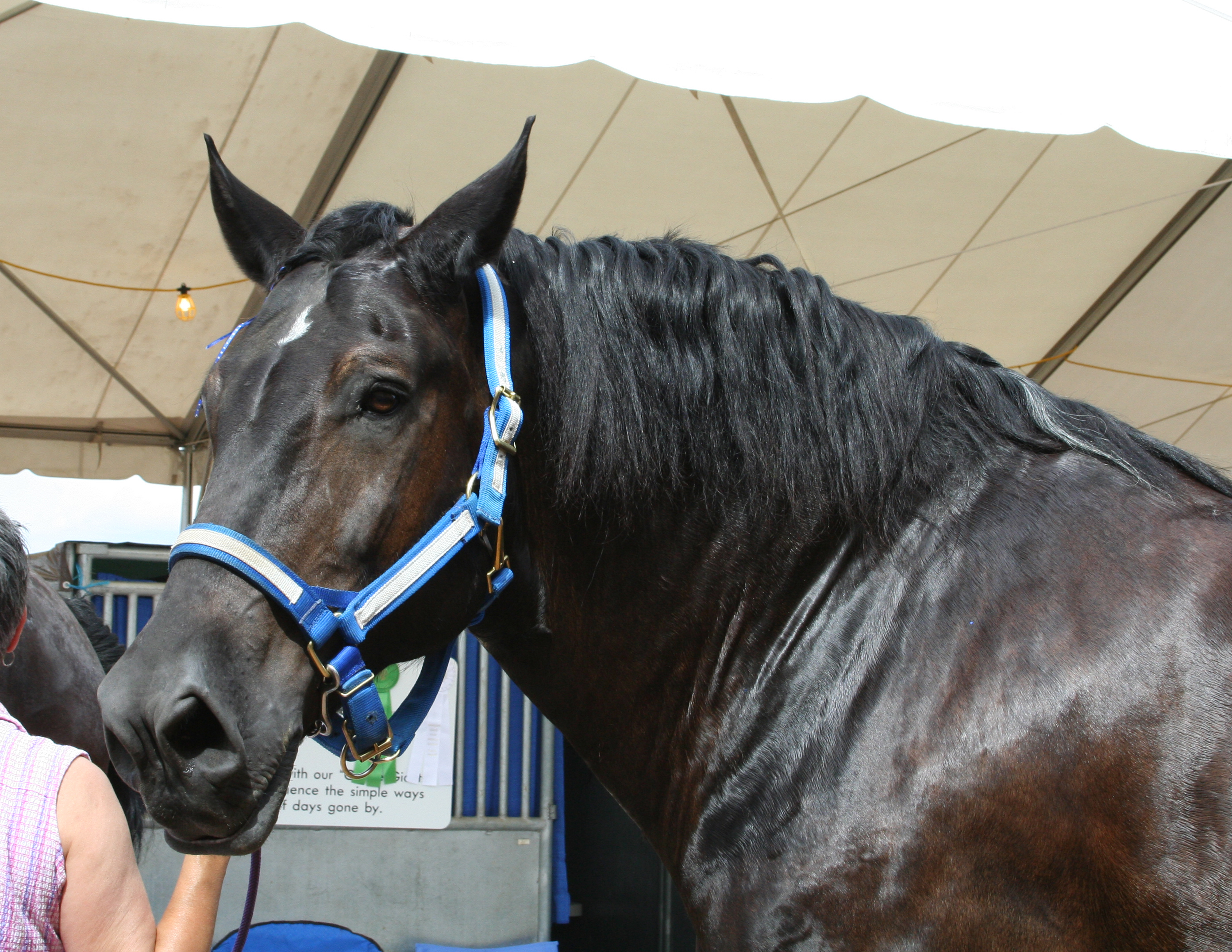 A black percheron draft horse.